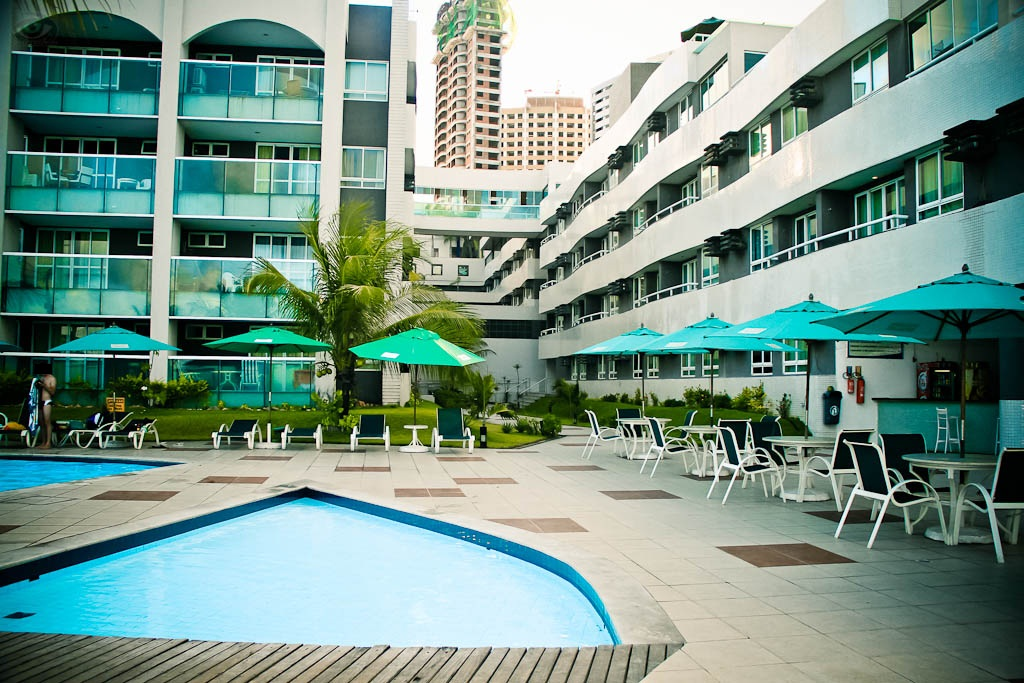 Ponta Negra Beach Hotel in Natal, Brazil.